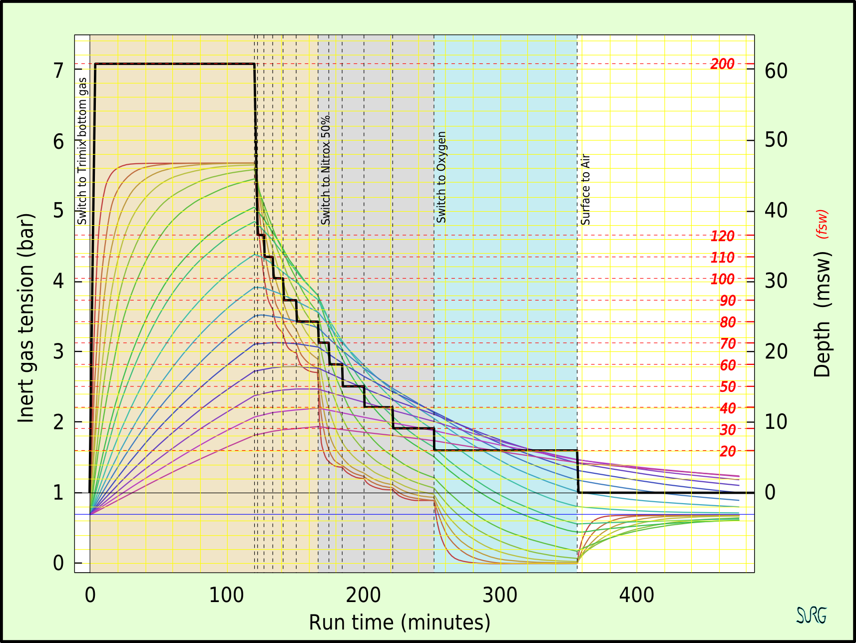 Change of inert gas tension in 16 theoretical tissue compartments during a decompression dive with gas switches to accelerate decompression